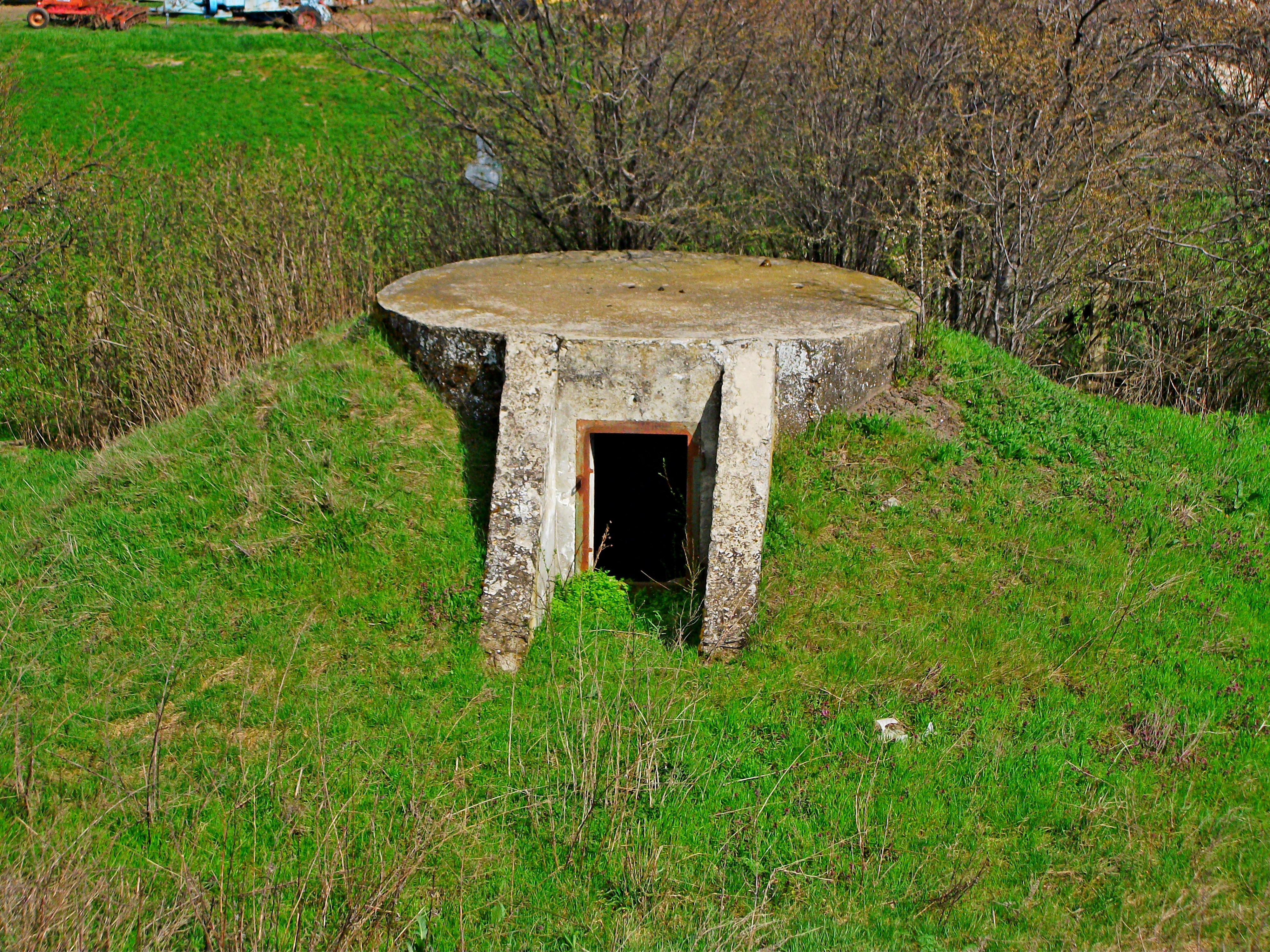 Bunker in Zichyújfalu, Hungary.